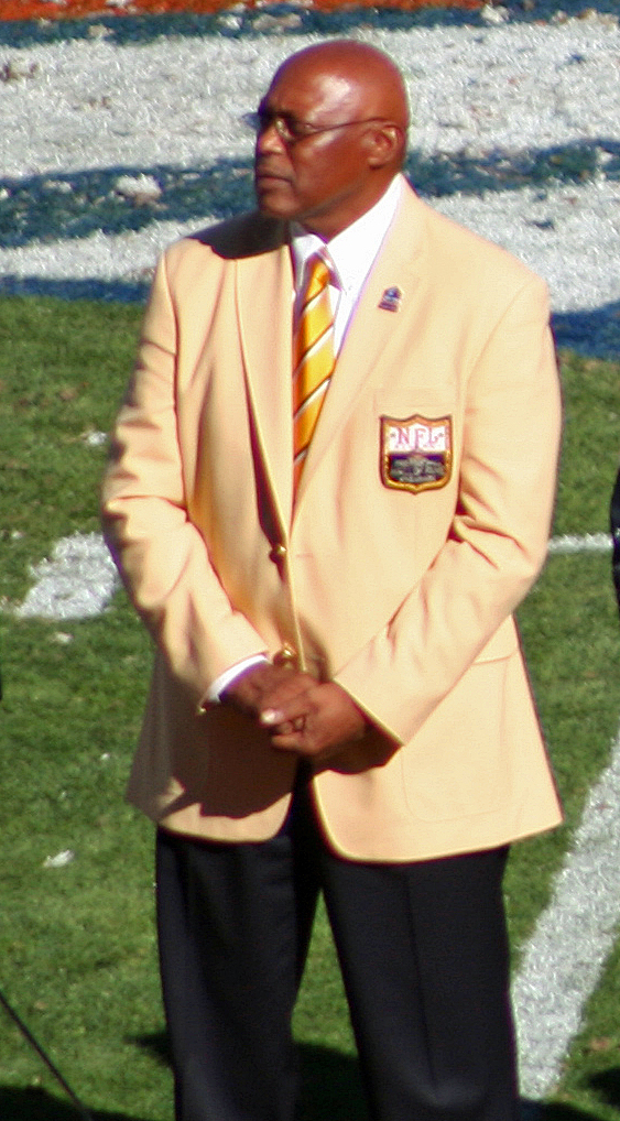 Floyd Little, Pro Football Hall of Fame running back, and member of the Denver Broncos American football team.